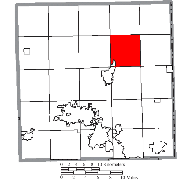 Map of the municipal and township boundaries of Trumbull County, Ohio, United States, as of the 2000 census, with the location of Johnston Township highlighted. Township borders are shown only in unincorporated areas in order to differentiate incorporated and unincorporated areas more clearly.